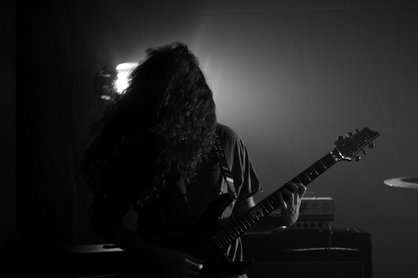 João Quintias guitar palyer